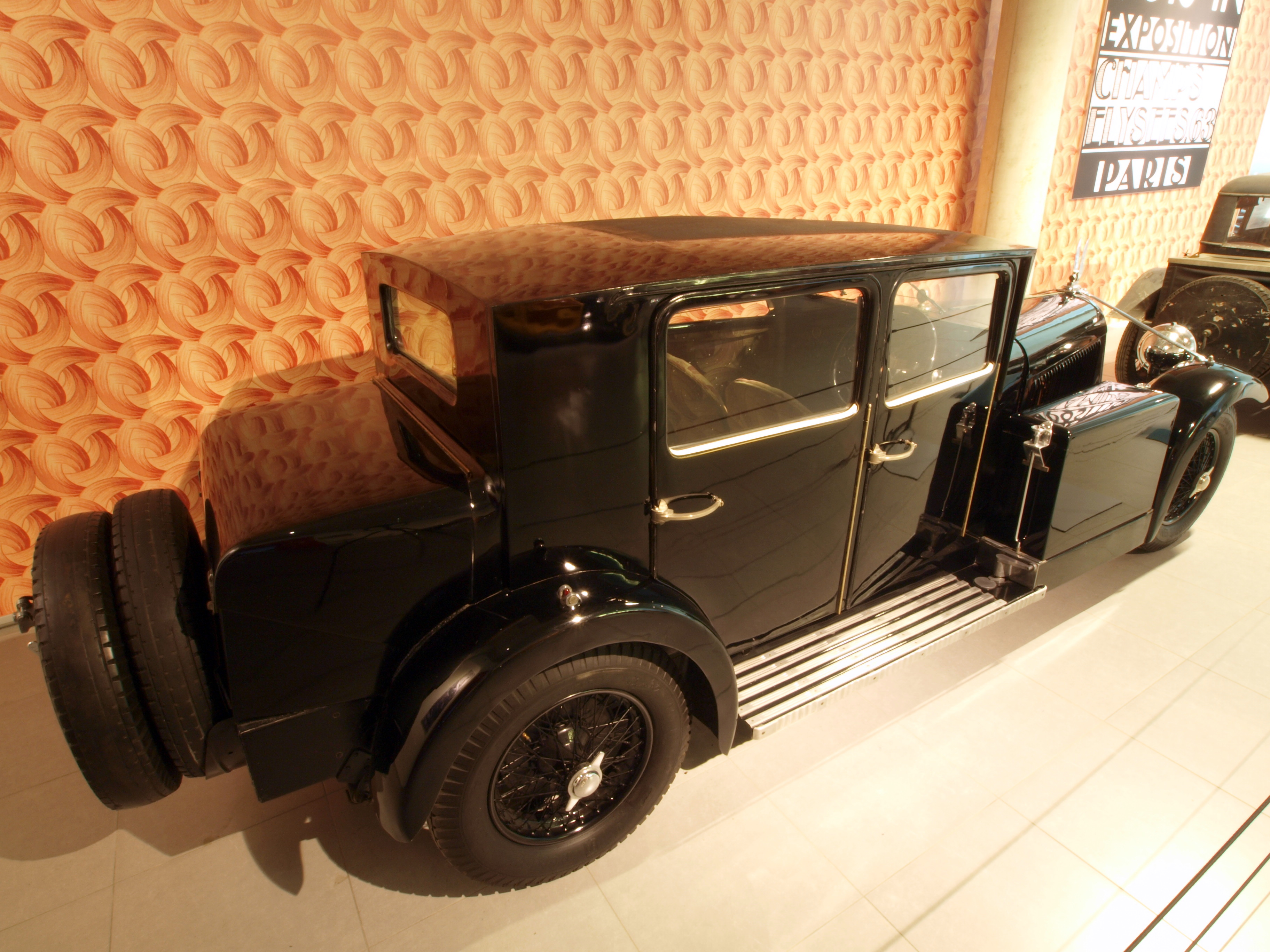 Photographed at the Louwman museum / Louwman Collection, The Netherlands.